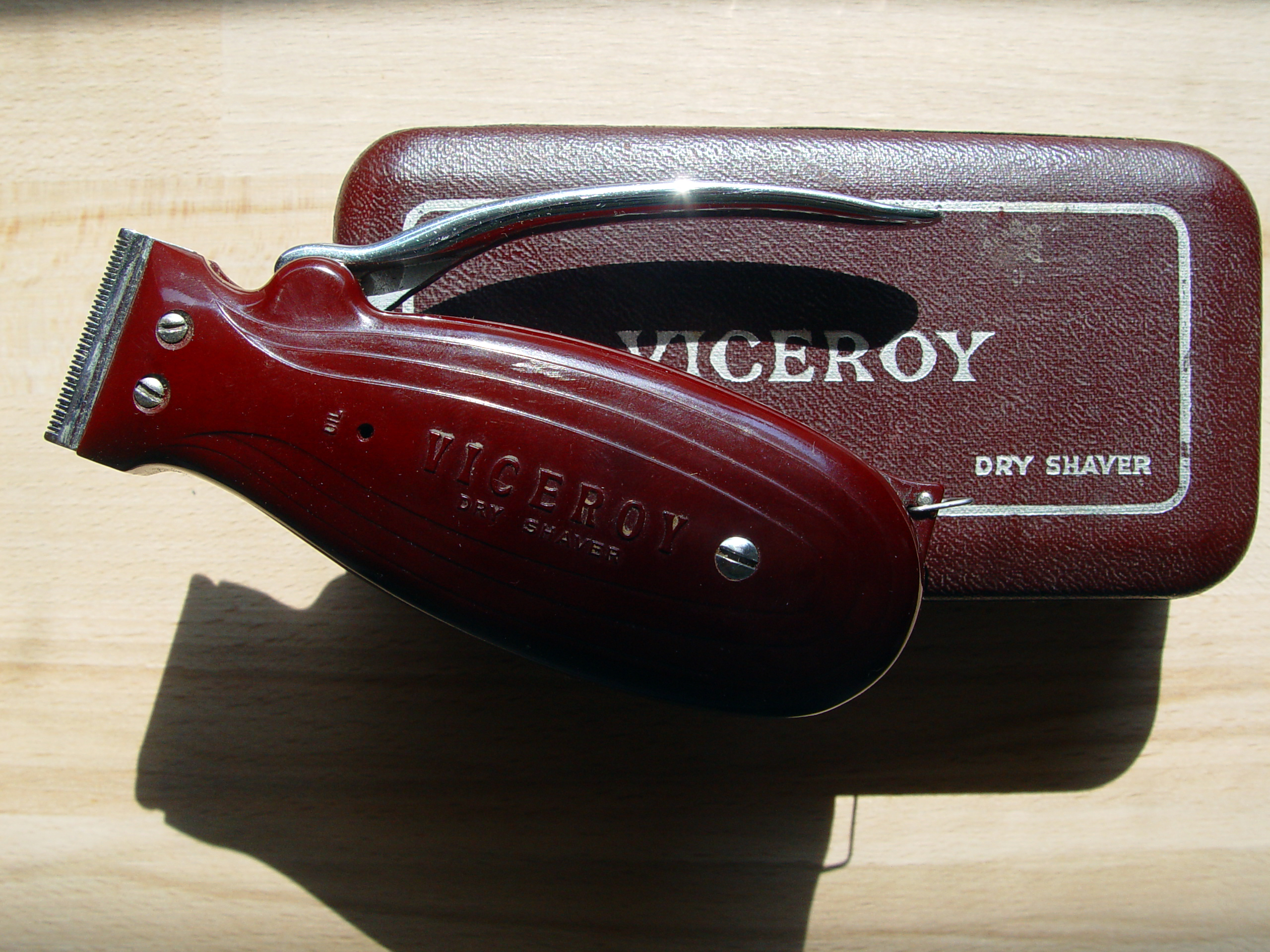 Spring-loaded Viceroy dry shaver made by Rolls Razor Ltd.